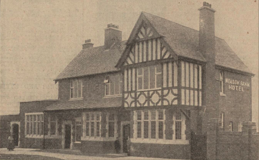 The Meadow Bank Hotel, Rotherham, by architect Charles Alfred Broadhead, from the Sheffield Daily Telegraph 5 January 1929